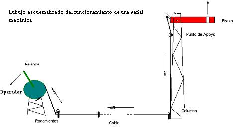 Schematic diagram of a simple mechanically operated railway signal